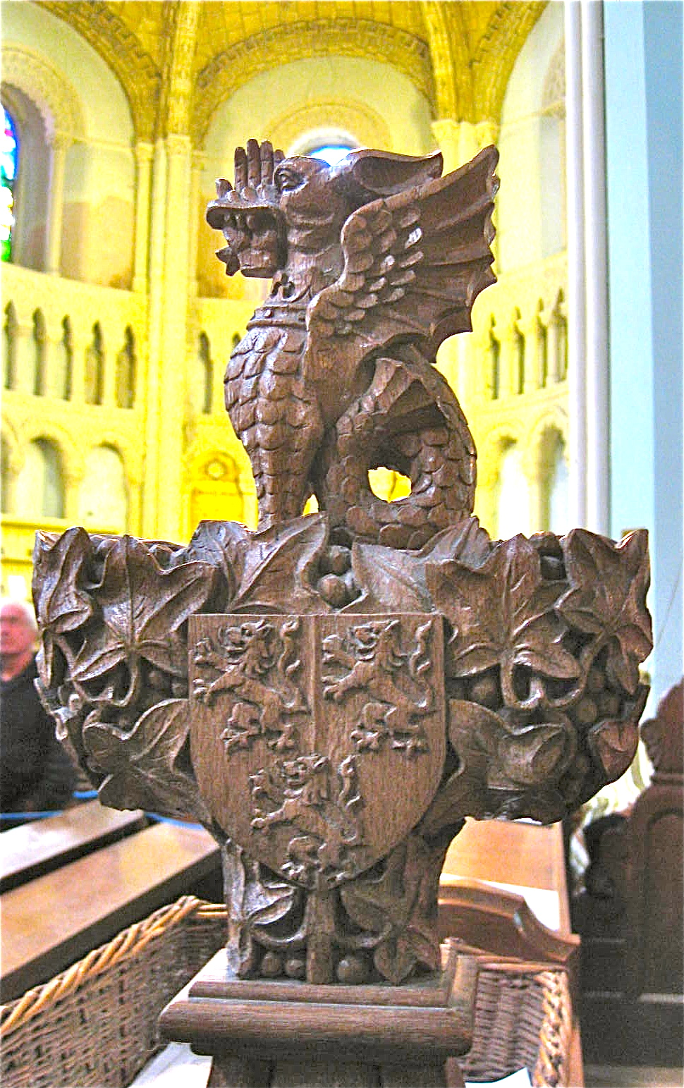 Oak pew end from the Earl's family pew.